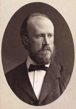 J.A. Fridericia